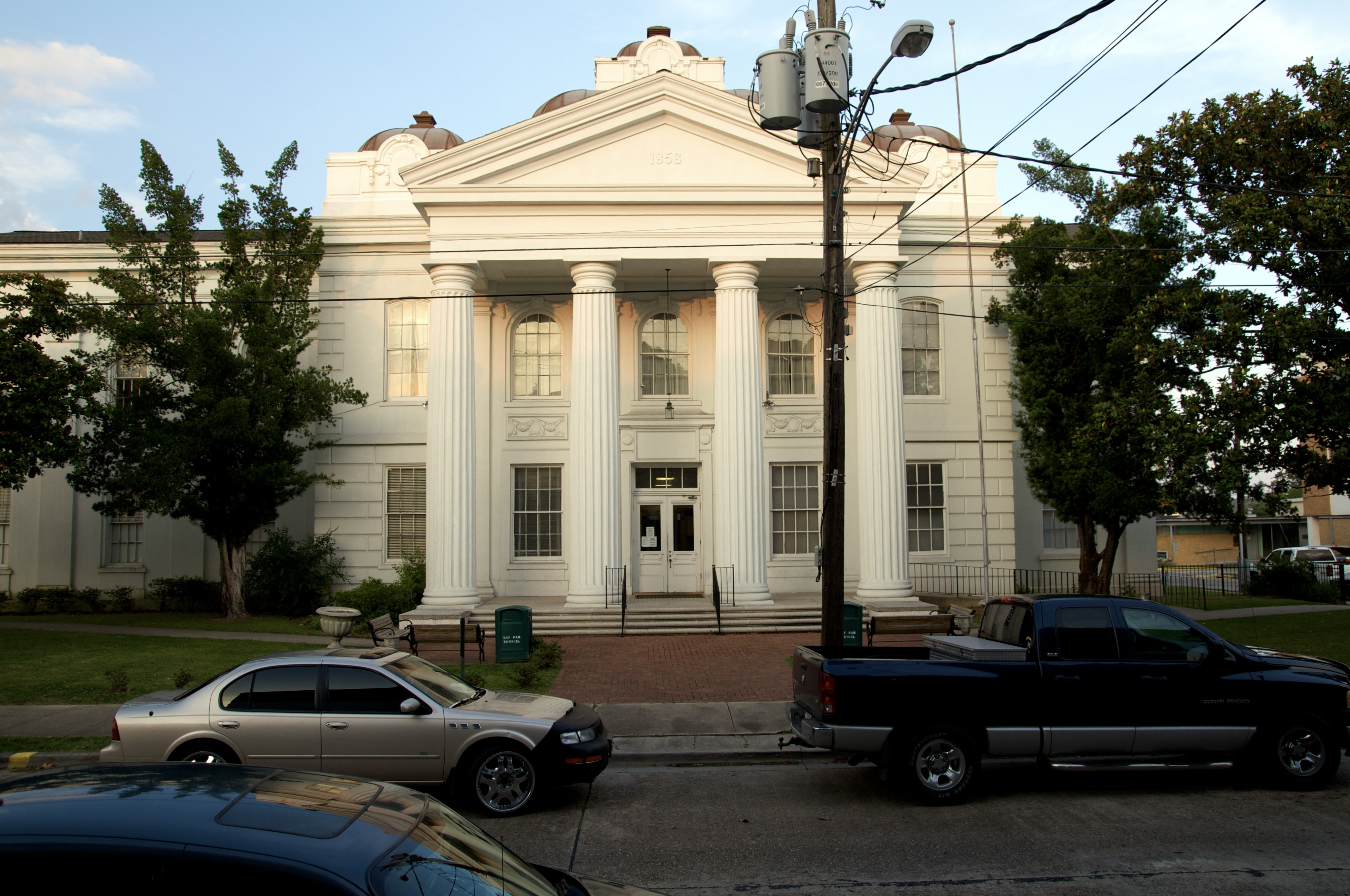 Front of the Lafourche Parish Courthouse, located at 200 Green Street in Thibodaux, Louisiana, United States. Built in 1858, it is listed on the National Register of Historic Places.